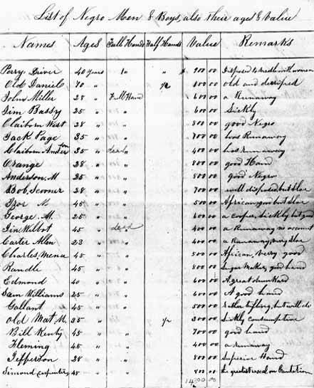 A page of the Book of Negros, compiling the name of the 3000 Blacks who left New York City in 1783.